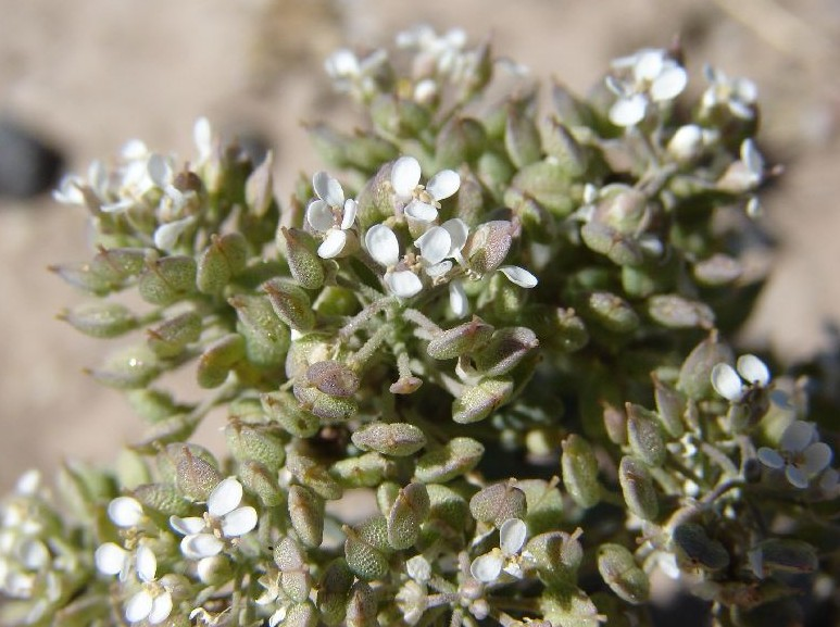 Lepidium papilliferum by Sheri Hagwood. Bureau of Land Management. United States, ID, Bureau of Land Management Jarbidge Resource Area. June 22, 2006.